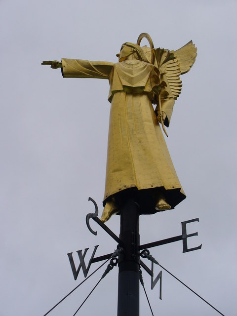 Guildford Cathedral Weather Vane. This 15-foot tall angel weather vane atop Guildford Cathedral weighs nearly a tonne and swivels very easily on mercury bearings. It was designed by Alan Collins and made in Islington (Hurst Franklyn & Co), and donated by Mr & Mrs SAdgey-Edgar in memory of their son who died during the Second World War. The wind was coming from the west when this photograph was taken.